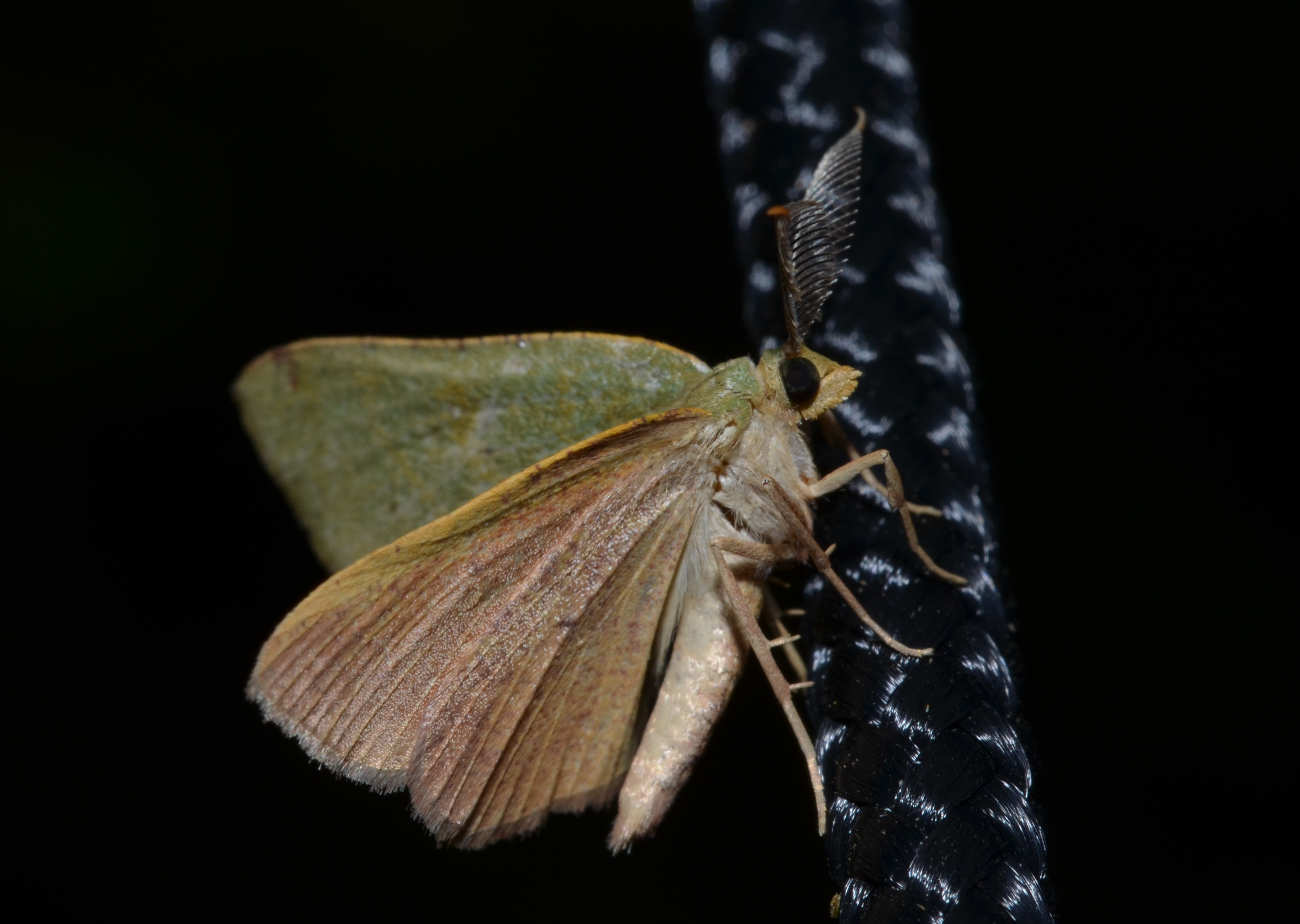 3/1/15 Mothing at Estero Llano Grande State Park in Texas